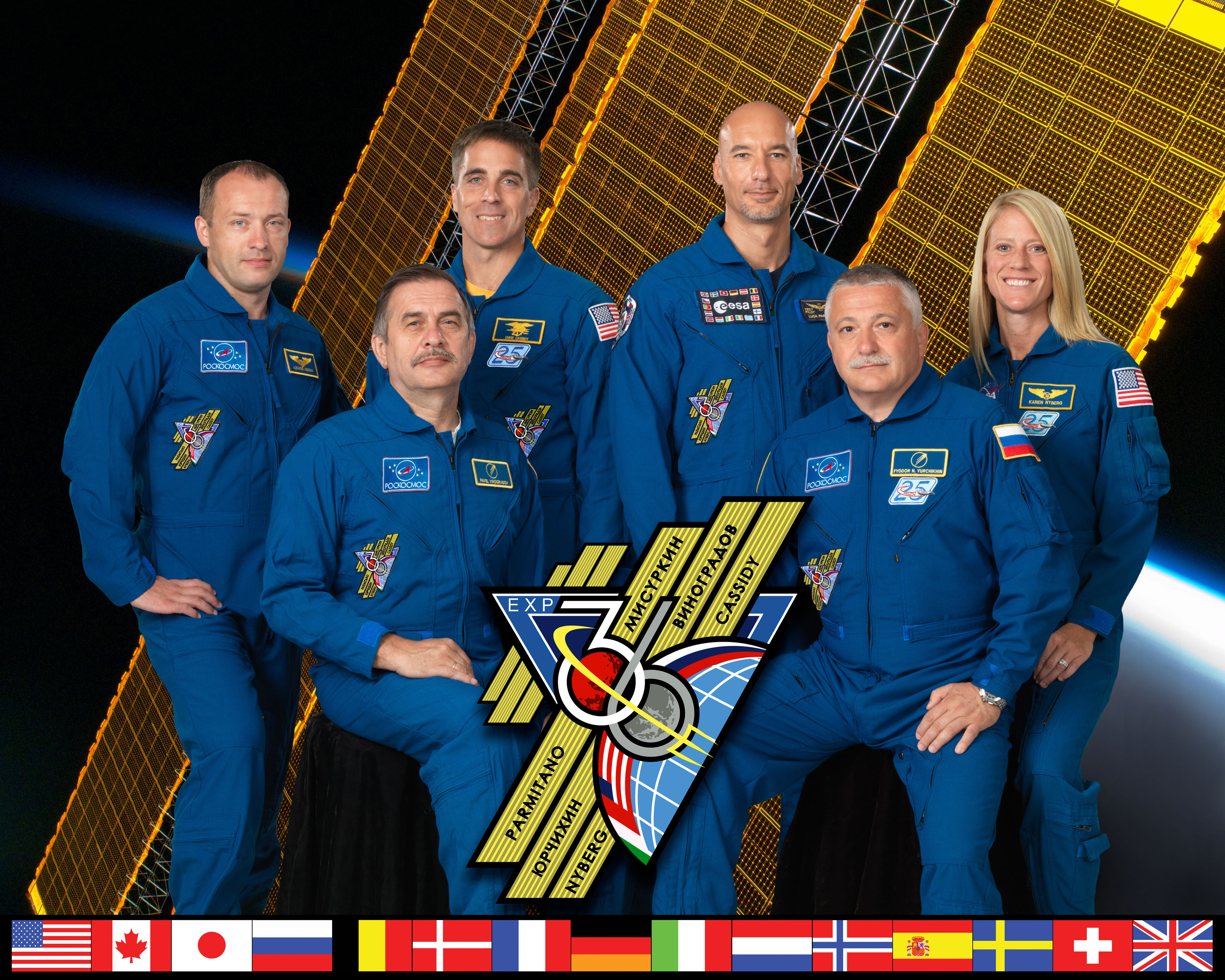 Expedition 36 crew members take a break from training at NASA's Johnson Space Center to pose for a crew portrait. Pictured on the front row are Russian cosmonauts Pavel Vinogradov (left), commander; and Fyodor Yurchikhin, flight engineer. Pictured from the left (back row) are Russian cosmonaut Alexander Misurkin, NASA astronaut Chris Cassidy, European Space Agency astronaut Luca Parmitano and NASA astronaut Karen Nyberg, all flight engineers.